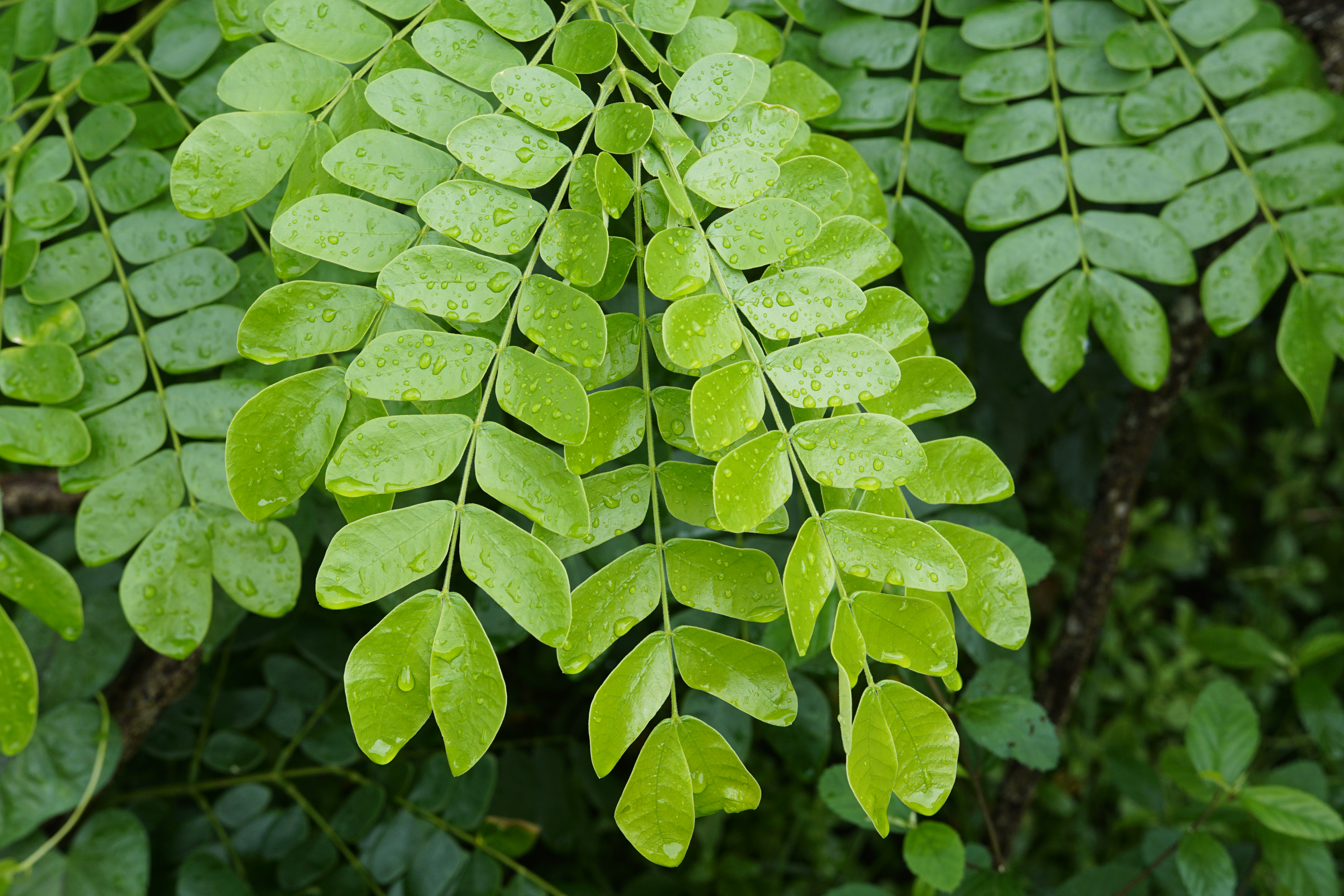 Albizia saman